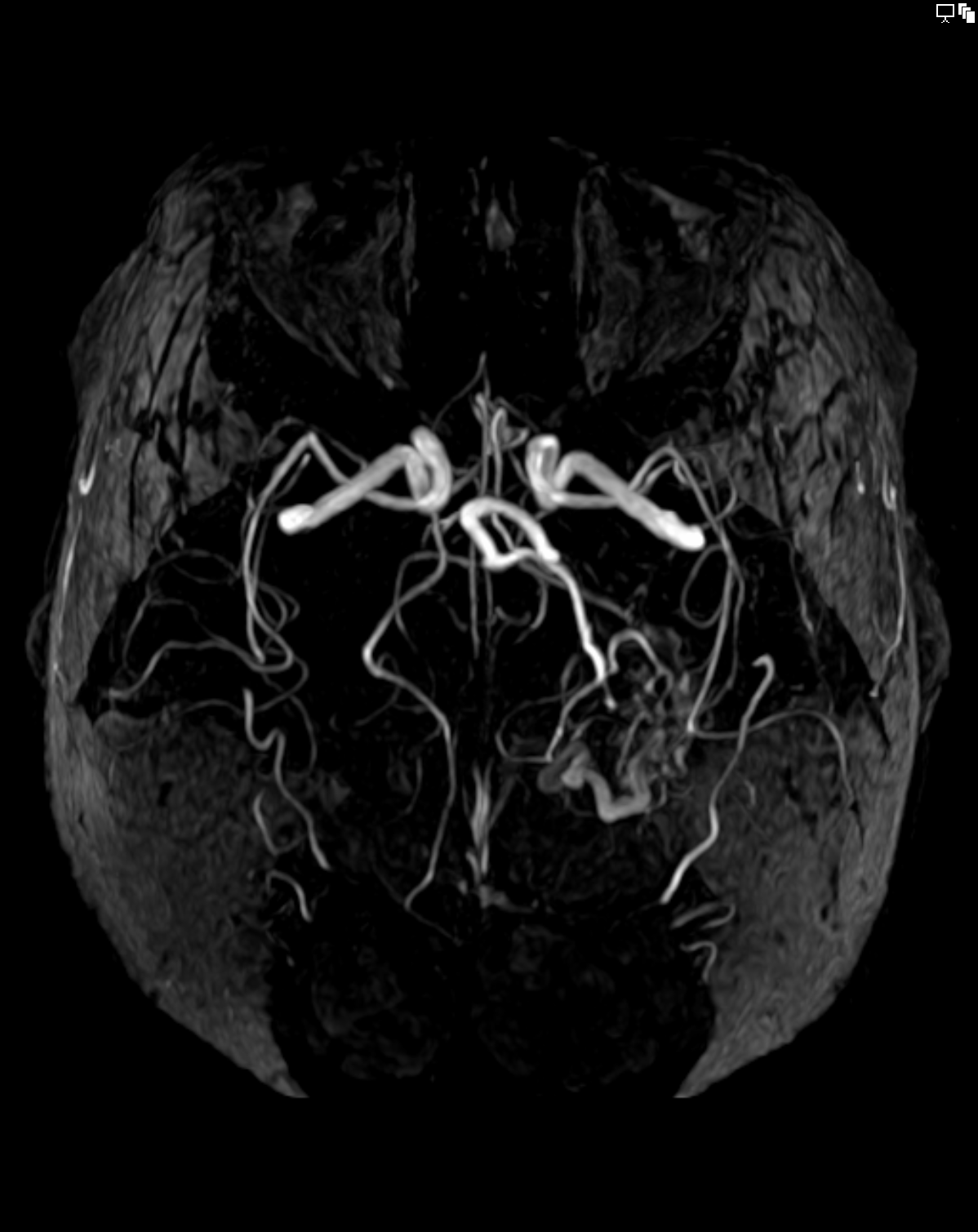 This image is part of a series which can be scrolled interactively with the mousewheel or mouse dragging. This is done by using Template:Imagestack. The series is found in the category Cerebral arteriovenous malformation MRT TOF MIP Case 001. More images of this case: Arteriovenöse Malformation im Gehirn: MRT TOF gedrehte MIP-Projektion